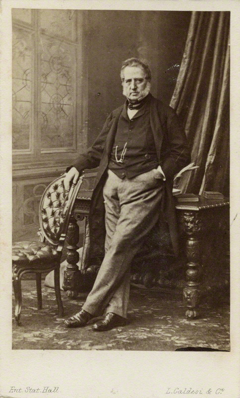 Portrait of Richard Malins (1805–1882), English judge.